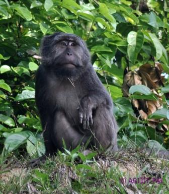 This is a picture of female Nicobar Long-tailed or Crab-eating Macaque (Macaca fascicularis umbrosa), which is endemic to three Nicobar Islands viz. Great Nicobar, Little Nicobar and Cachhal.